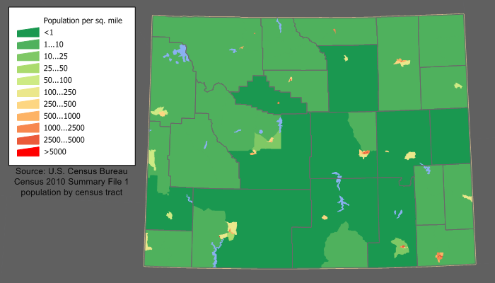 Category:United States state population maps Category:Wyoming maps Wyoming state population density map based on Census 2010 data. See the data lineage for a process description.